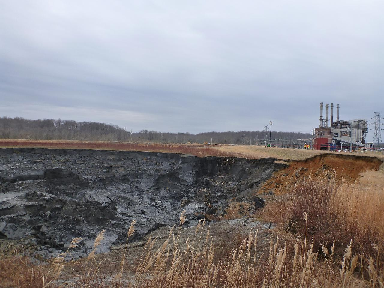 View of collapsed coal ash impoundment and closed power plant at Dan River Steam Station (Duke Energy), Eden, North Carolina. The impoundment failure caused the 2014 Dan River coal ash spill.